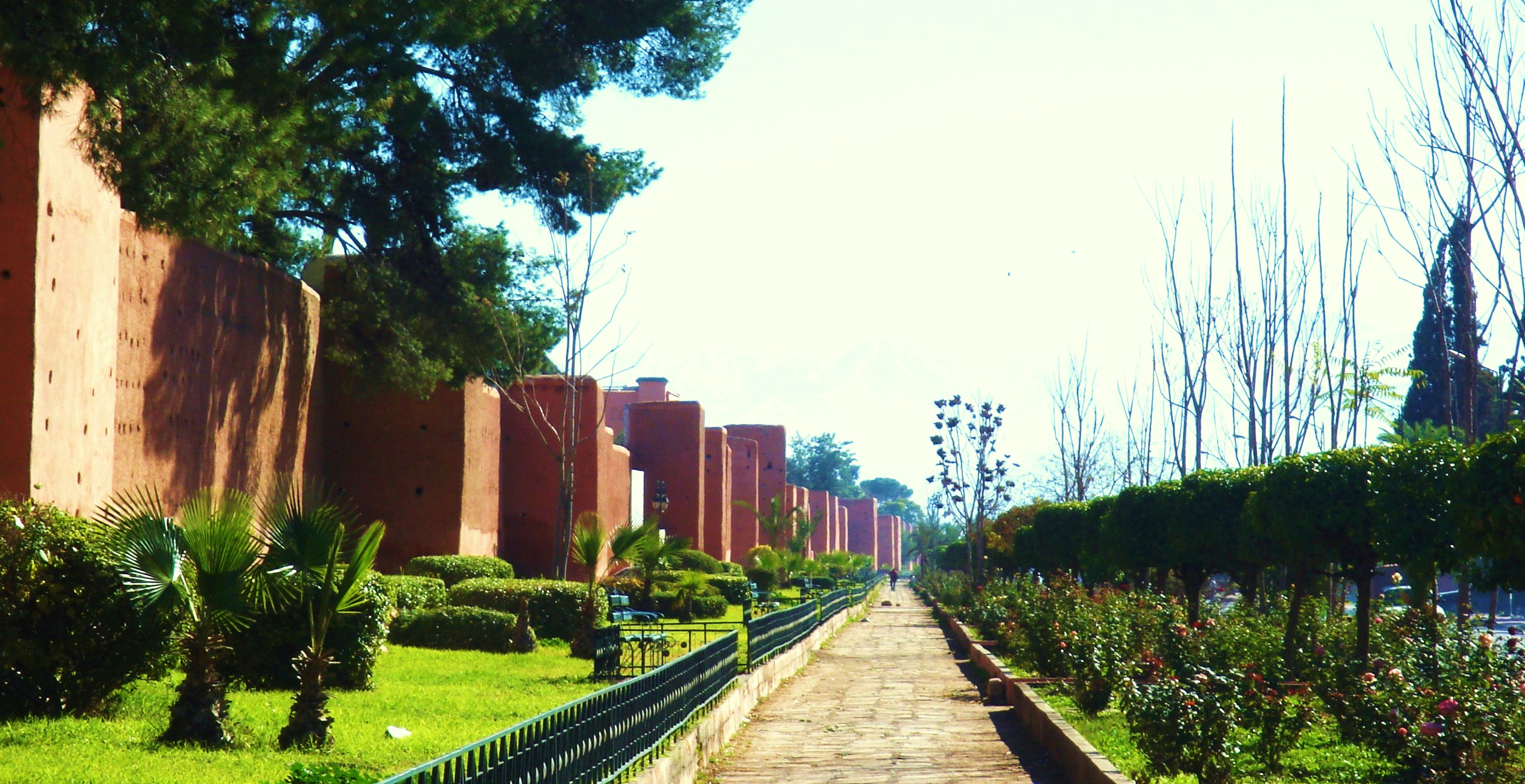 looking south along the Medina walls from the new town towards the old town pic taken by John Doyle